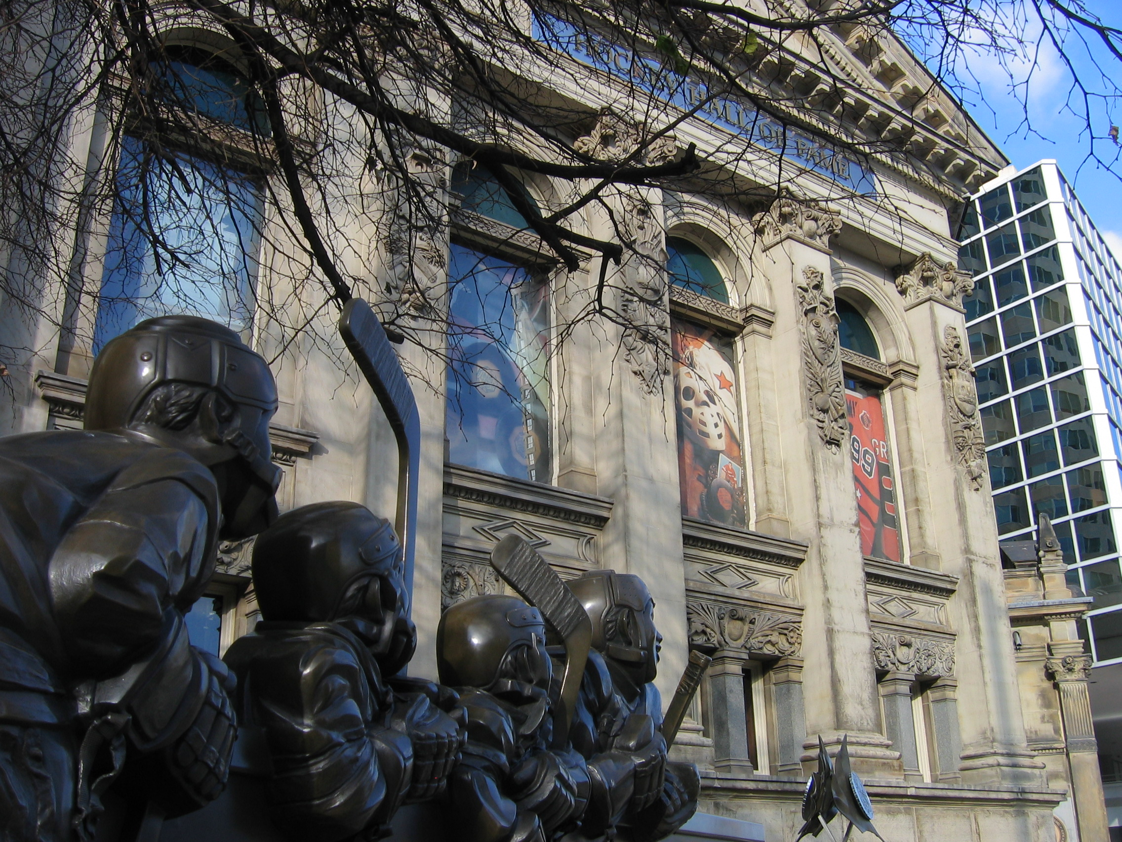 Hockey Hall of Fame - "Our Game" sculpture outside the Hockey Hall of Fame (Bank of Montreal) building